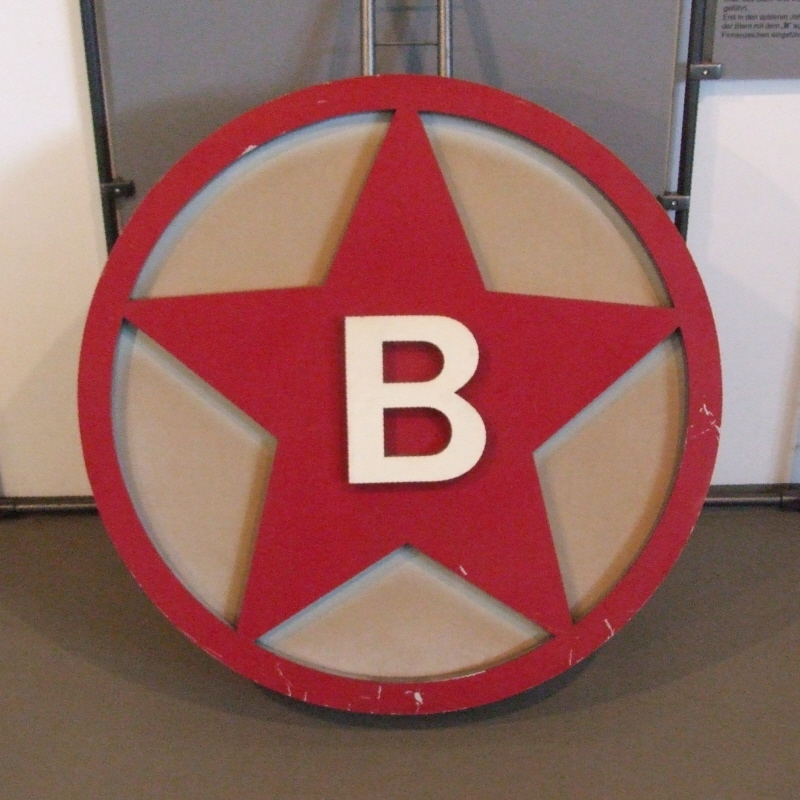 company sign SWB